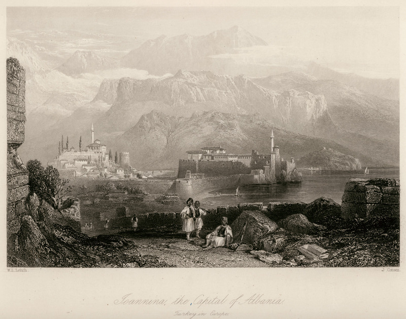 Illustration from Constantinople and the Scenery of the Seven Churches of Asia Minor illustrated…, With an historical Account of Constantinople, and Descriptions of the Plates…, London/Paris, Fisher, Son & Co. (1836-38), by Robert Walsh and Thomas Allom